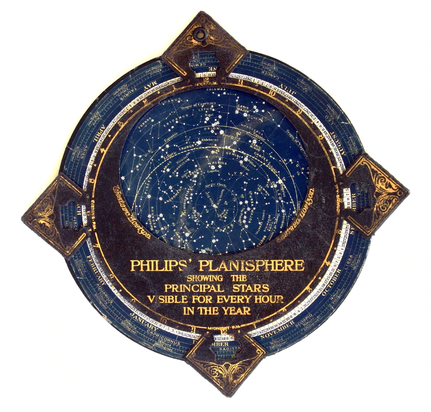 Revolving star chart (Planisphere) published by George Philip & Son, Ltd., London, around 1900.